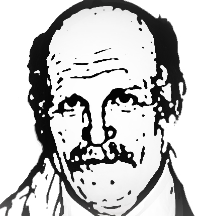 Portrait sketch of the writer Vincenzo Pardini performed by tracing the outlines of a photograph.